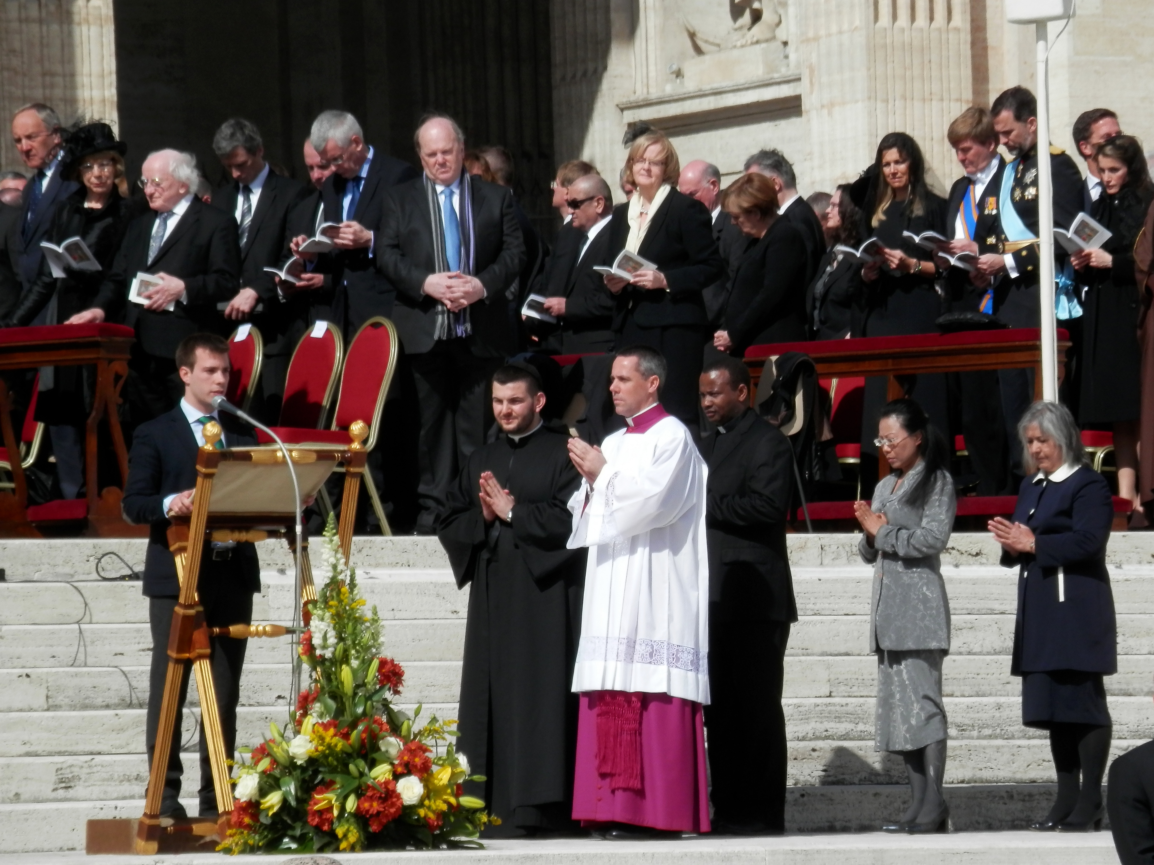 Inauguration of Pope's Francis Ministry, 19 March 2013